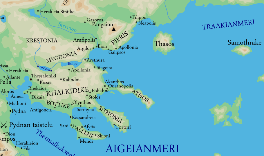 Macedon and north Aegean sea during Third Macedonian War(171-168 BC)